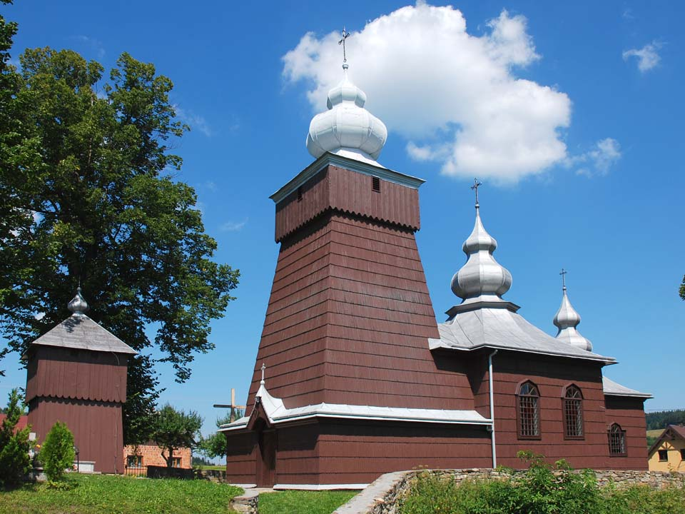 Piorunka (Poland), Greek Catholic church (now Roman Catholic church)